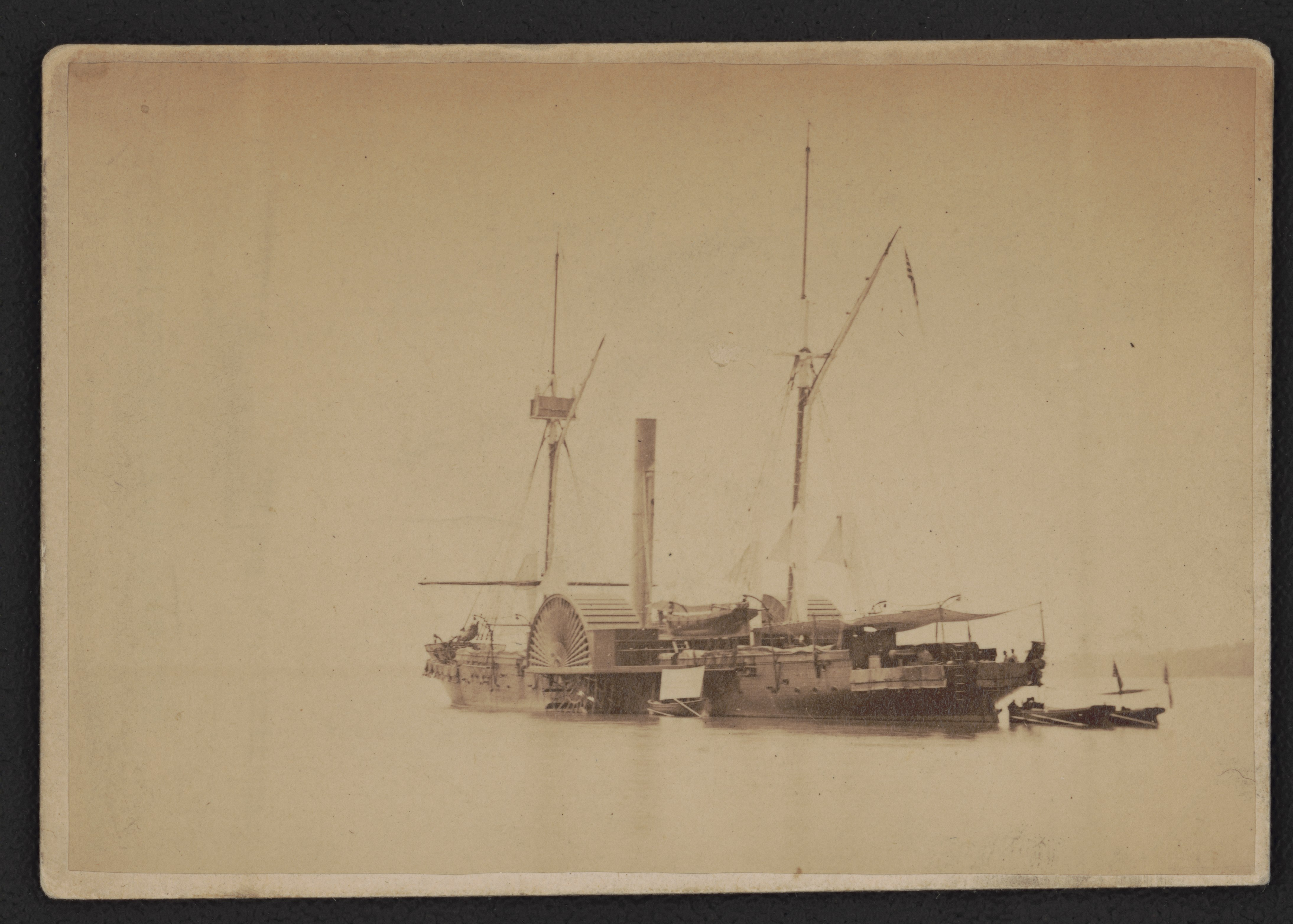 Title: The Meritanza [i.e. Maratanza], as she appeared immediately after the capture of the Teazer [i.e. Teaser] Abstract/medium: 1 photograph : albumen print on card mount ; mount 8 x 11 cm (carte de visite format)